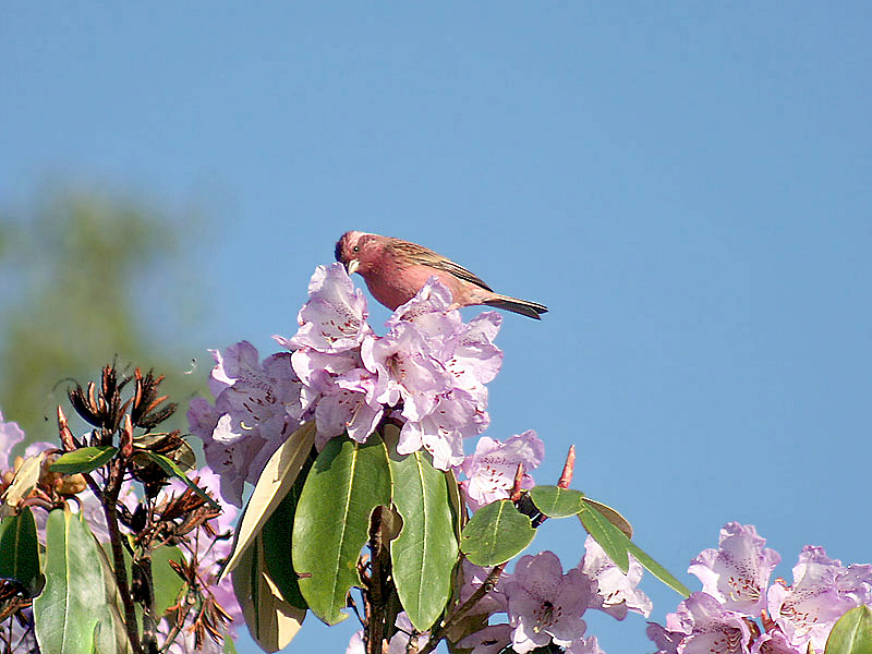 Pink-browed Rosefinch Carpodacus rodochroa in Kullu District of Himachal Pradesh, India.